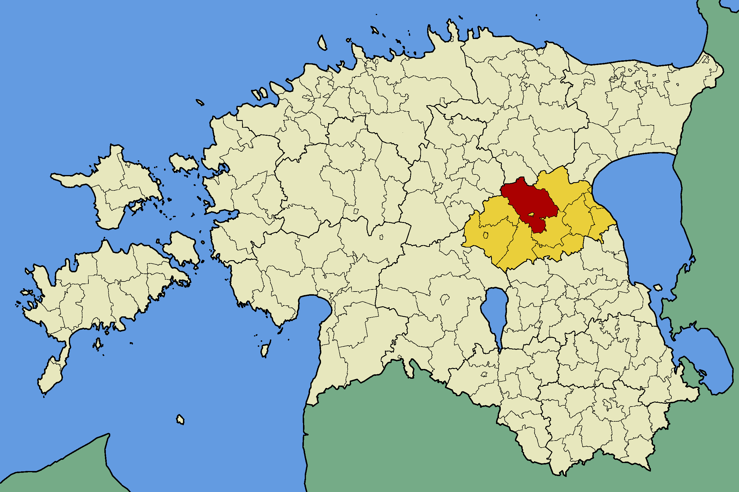 Map of Estonia with borders of municipalities (parishes). Jõgeva county and Jõgeva municipality emphasized.